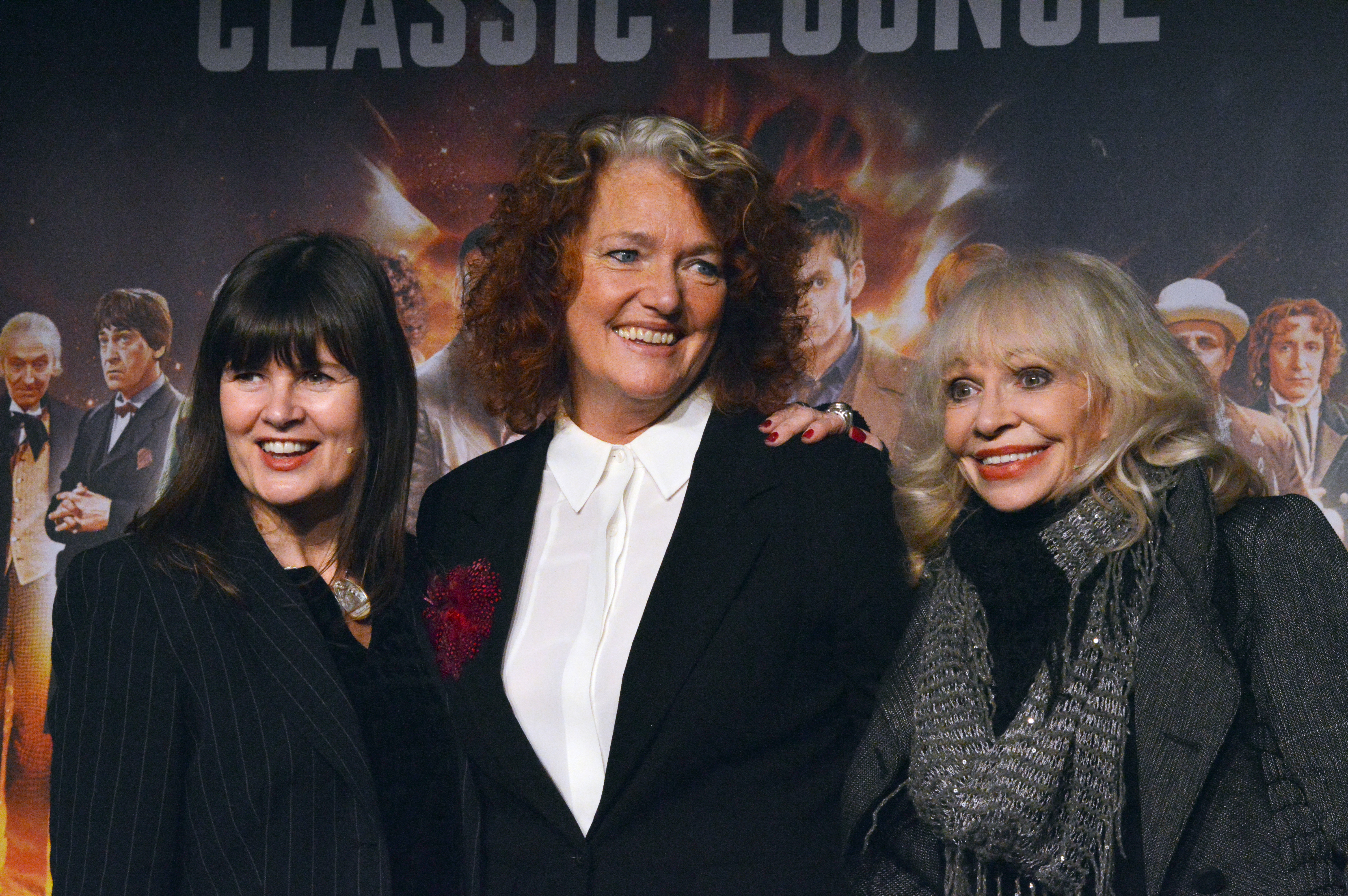 Ace, Leela & Jo Doctor Who Experience